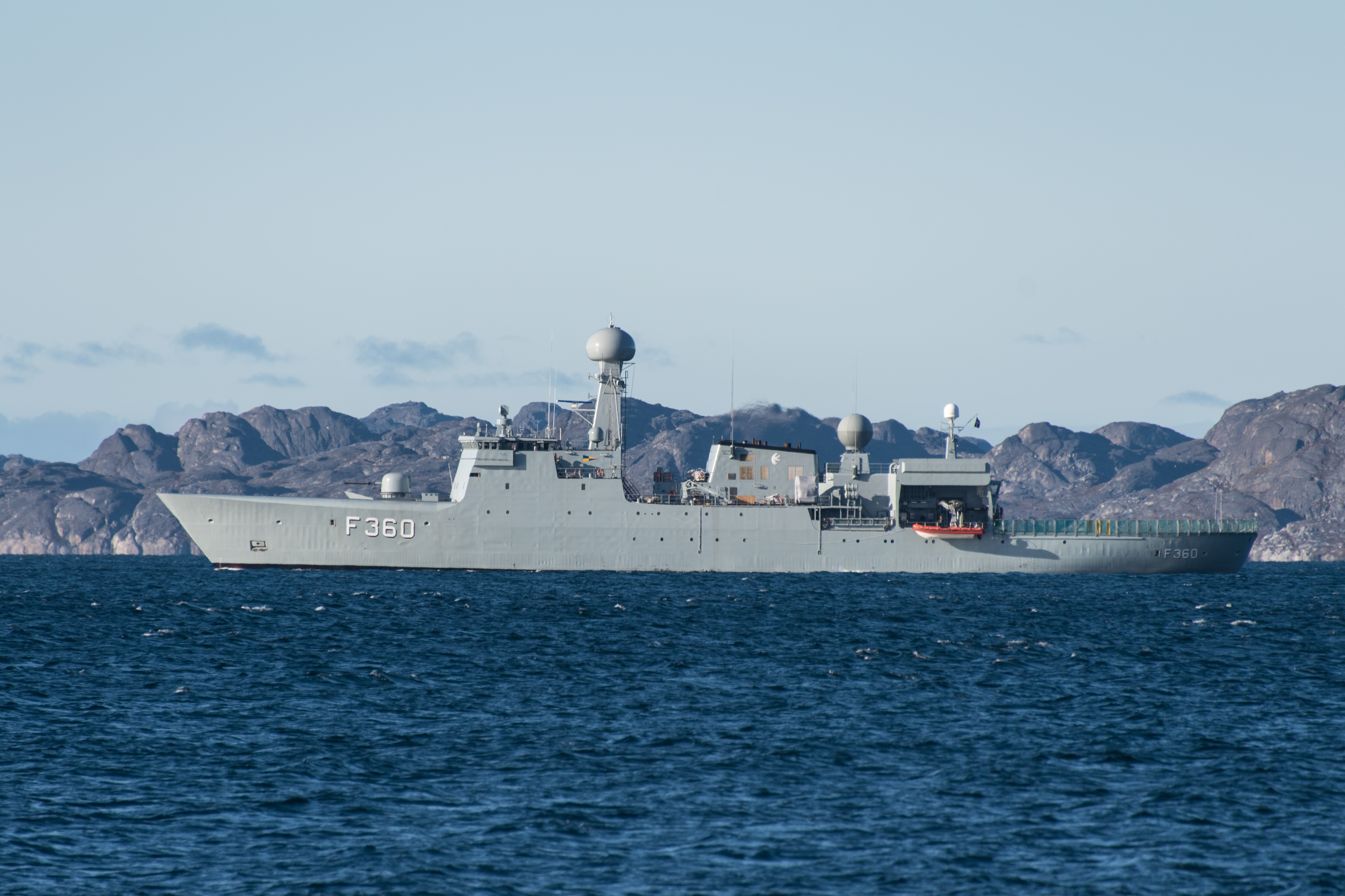 Danish Navy frigate, HDMS HVIDBJORNEN F360, in front of Nuuk Old Port in Nuuk, Greenland on September 25, 2017.